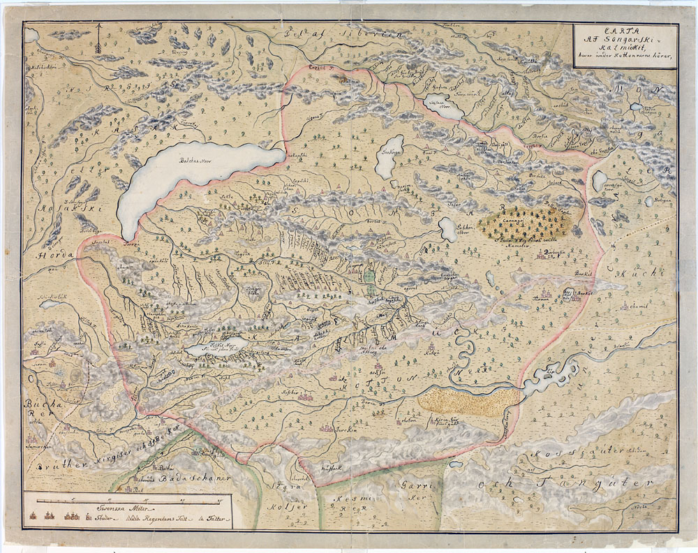 Map of Zungharia by Johan Gustav Renat